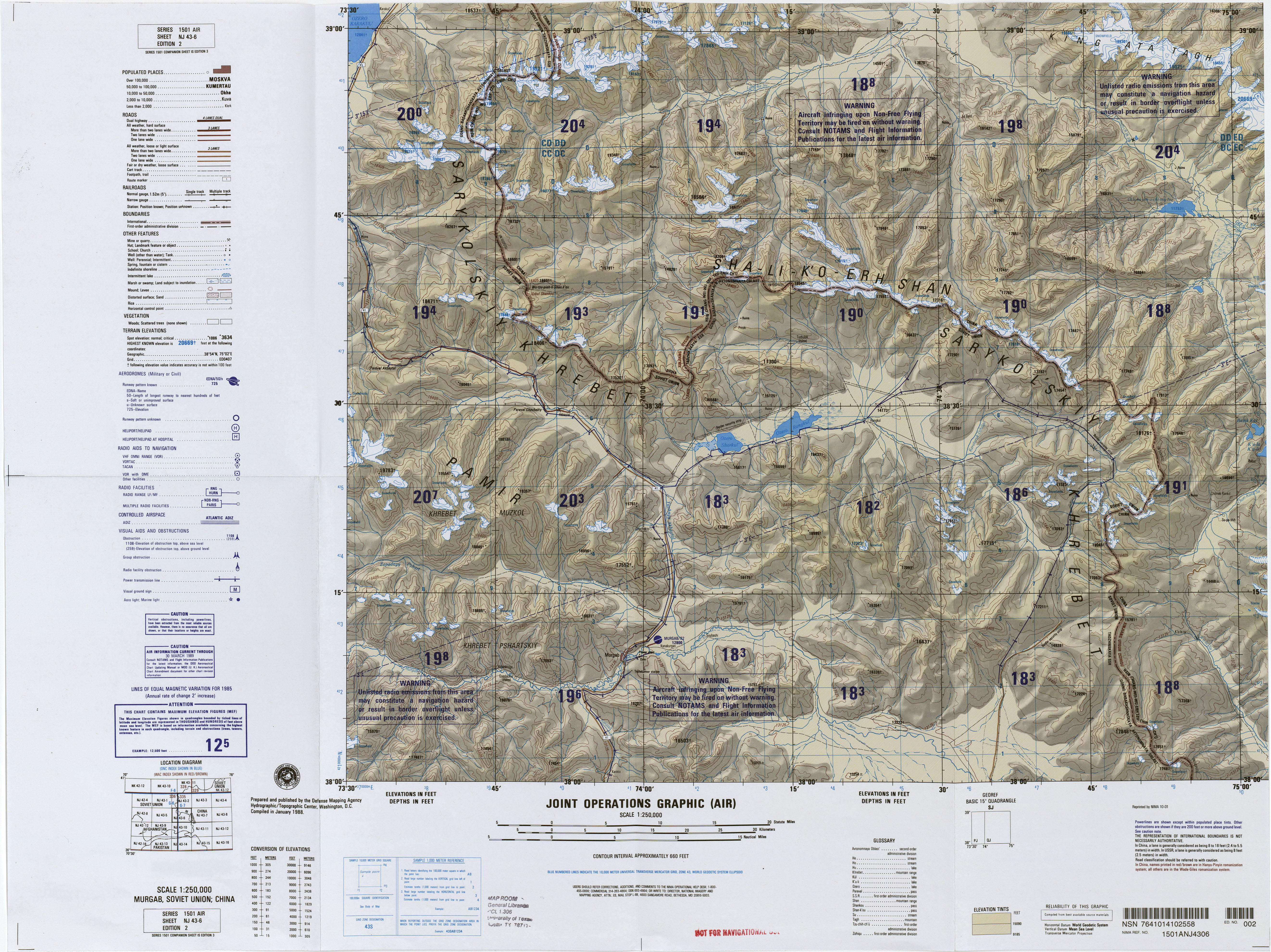 NJ 43-6 Murgab, Soviet Union; China [Tajikistan; China] (22.1MB)